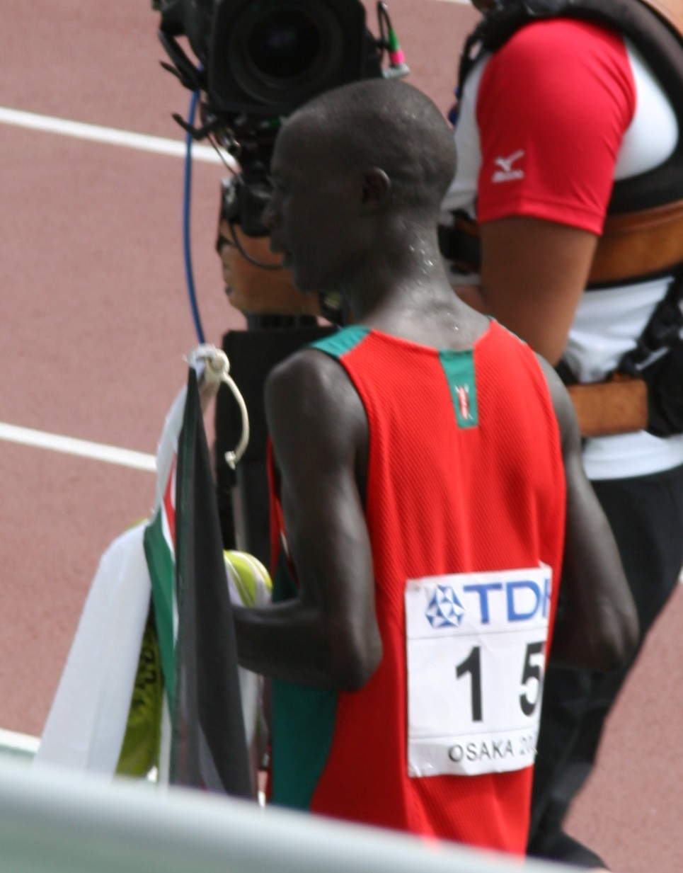 World Athletics Championships 2007 in Osaka - Marathon Winner Luke Kibet celebrating